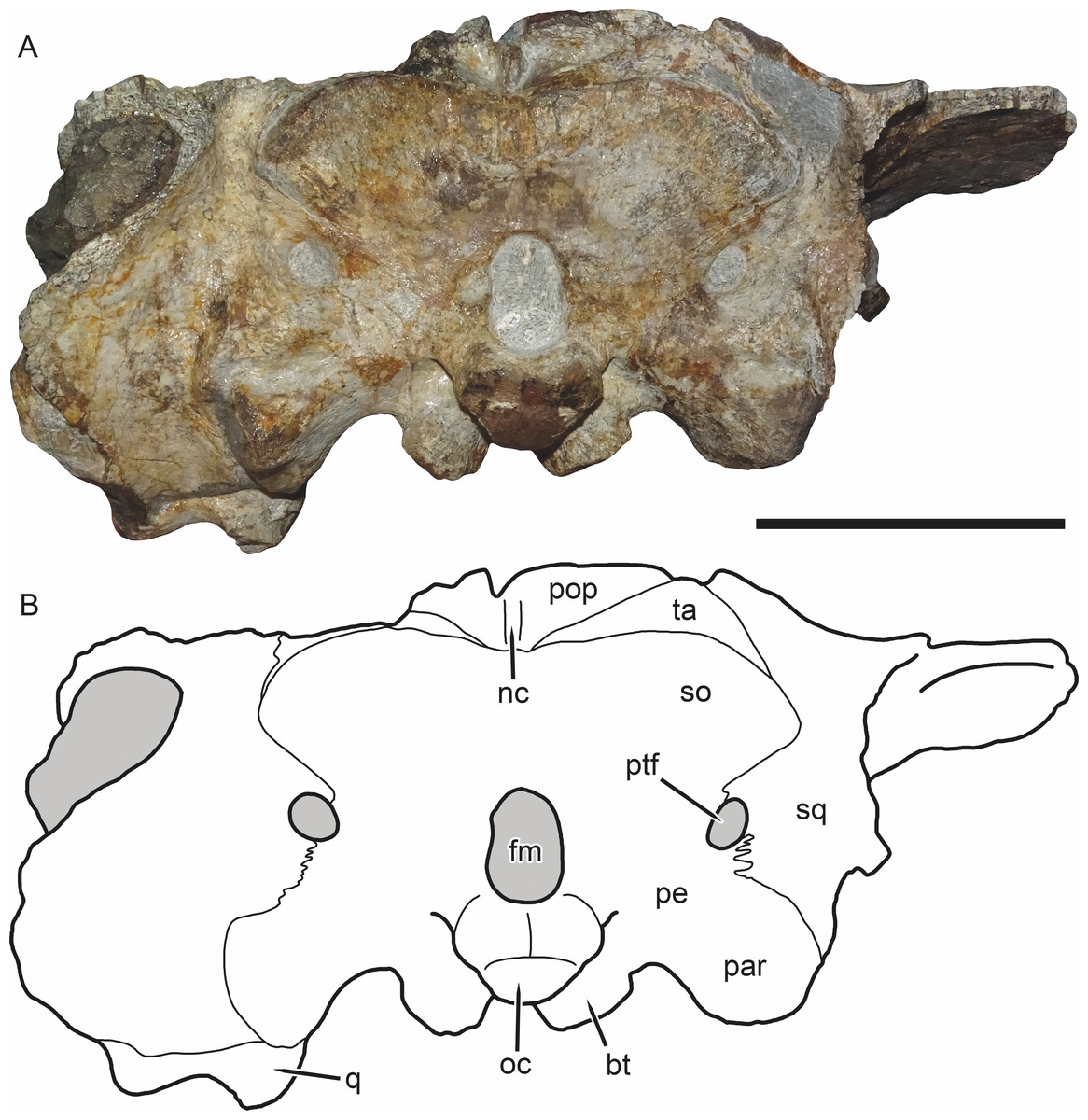 Figure 6: SAM-PK-K11235, holotype of Bulbasaurus phylloxyron gen. et sp. nov., in occipital view. (A) photograph and (B) interpretive drawing. Abbreviations: bt, basal tuber; fm, foramen magnum; nc, nuchal crest; oc, occipital condyle; par, paroccipital process; pe, periotic; pop, postparietal; ptf, post-temporal fenestra; q, quadrate; so, supraoccipital (exact boundaries uncertain, fused with periotic); sq, squamosal; ta, tabular. Gray indicates matrix. Scale bar equals 5 cm.